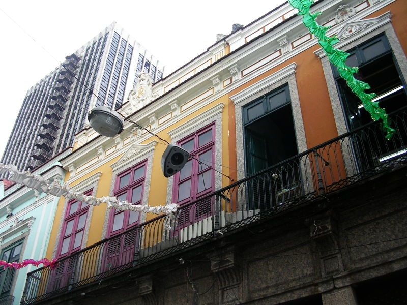 Saara market, Rio de Janeiro, Brazil